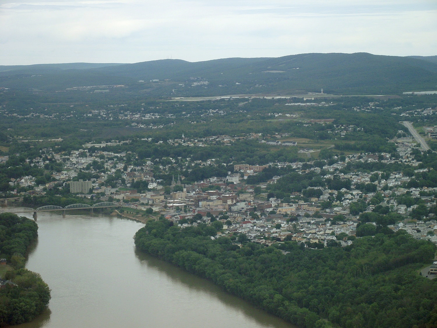 Pittston City aerial view looking northeast. Also in the background is Pittston Township and Wilkes-Barre/Scranton International Airport